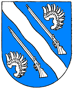 Coat of arms of Huskvarna.